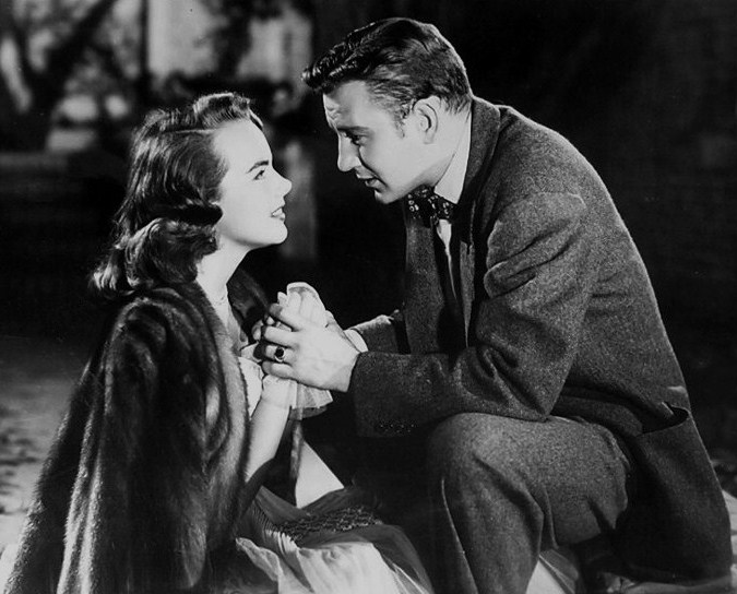 Terry Moore and Tom Drake in The Great Rupert (1950) - cropped screenshot